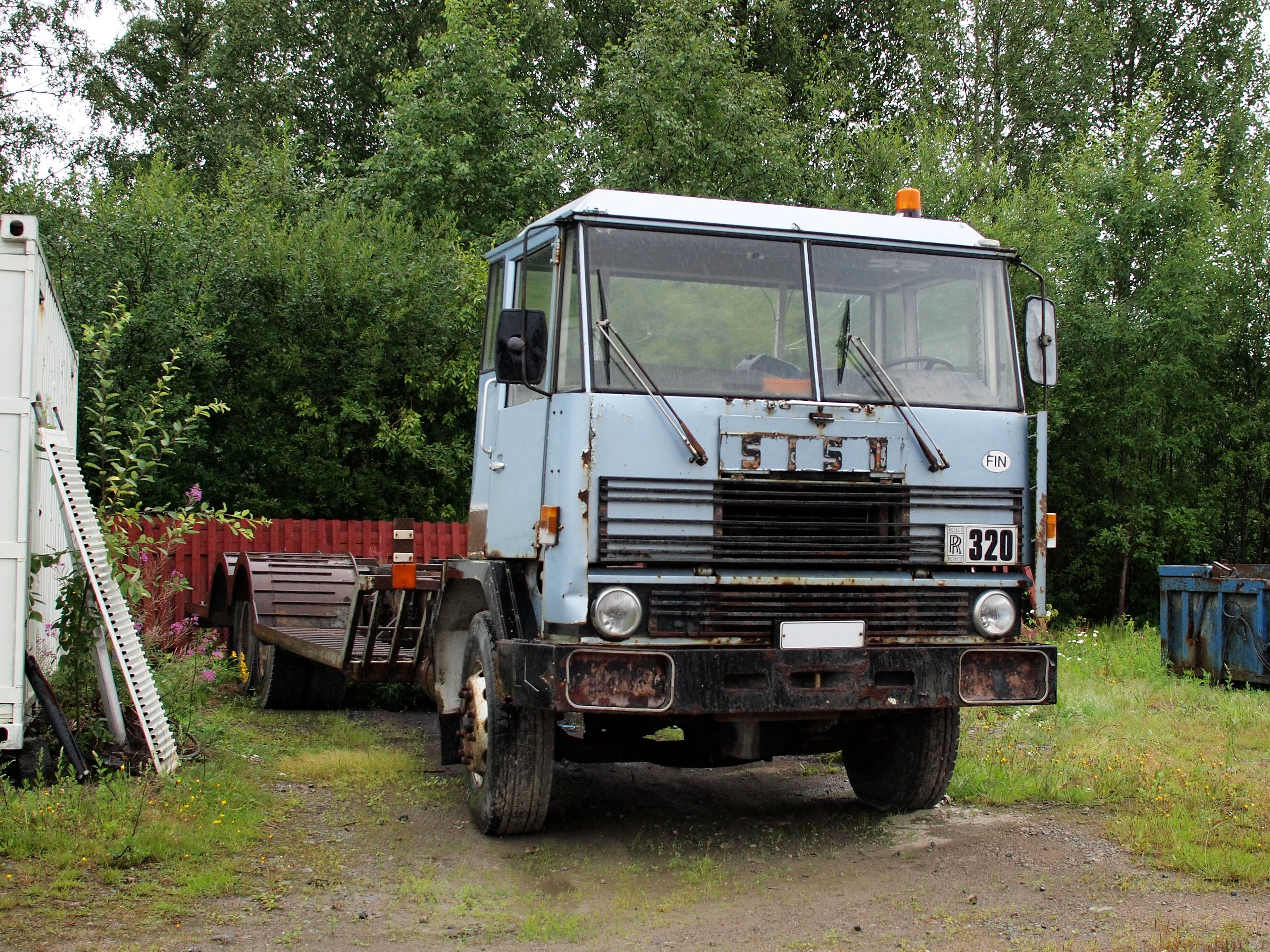 Sisu M162 with a Rolls-Royce 320 diesel engine.